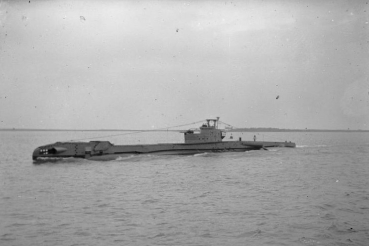 British T class submarine HMSM TRUMP underway.